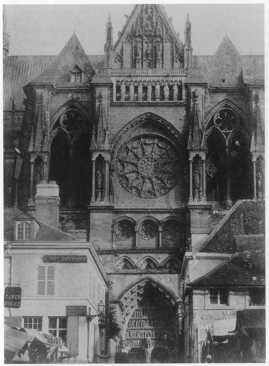 Henri le Secq: facade of the northern nave of Reims cathedral, 1851.